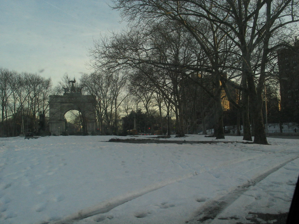 Viewing the arch of hte Grand Army Plaza through the snow-covered field.